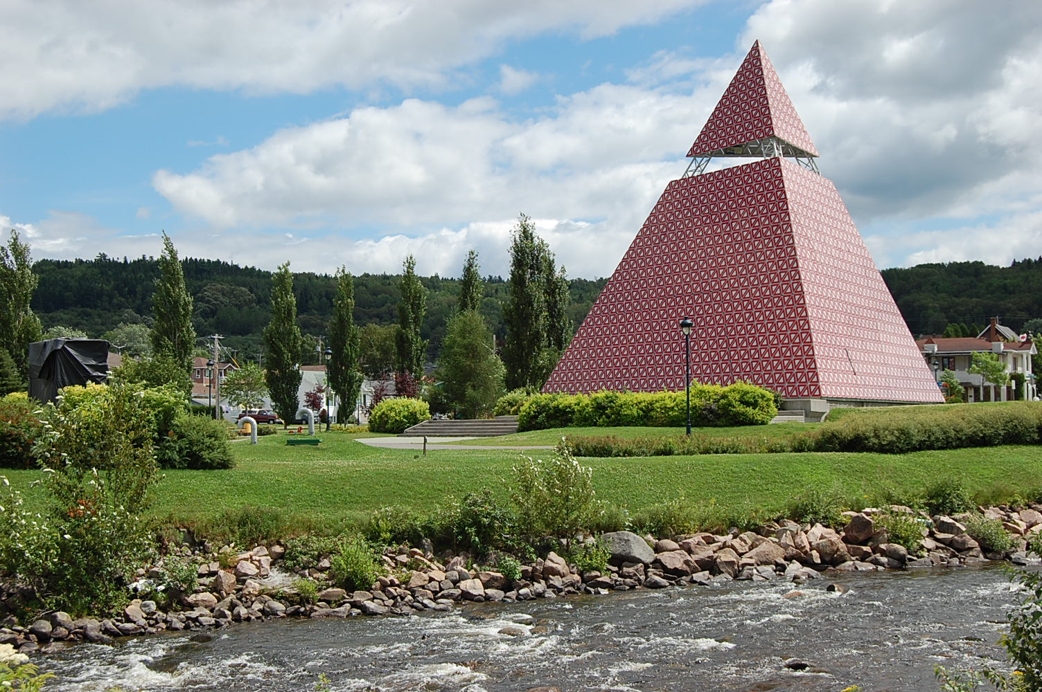 Pyramide des Ha! Ha!, Saguenay , Québec